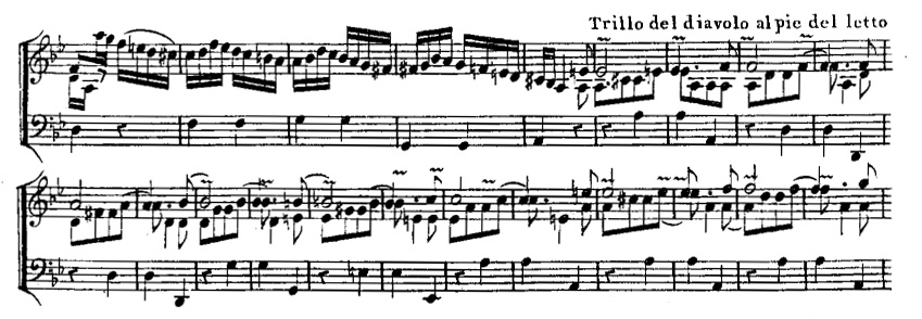 The first of three passages from the last movement with the "Devil's trill at the foot of the bed."